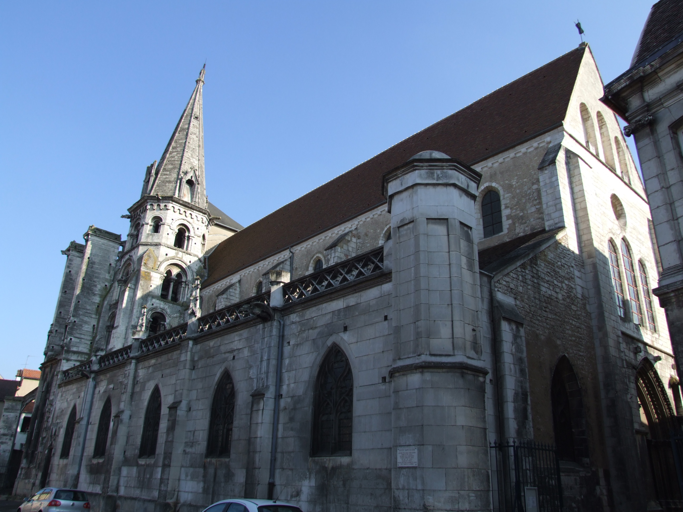 Saint-Eusebe church, Auxerre, Burgundy, FRANCE